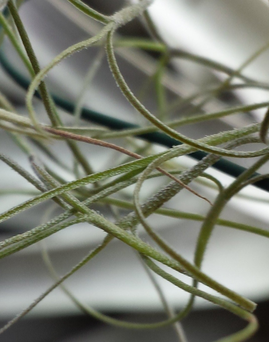 Tillandsia usneoides 'Munro's Filiformis'